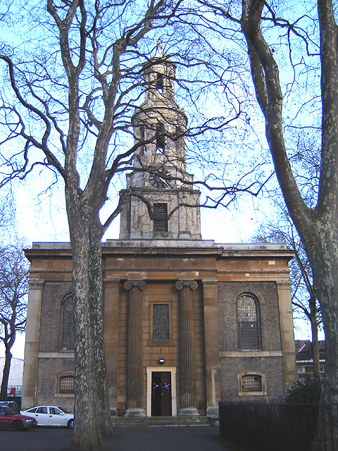 St John the Baptist Church, New North Road, Hoxton, Hackney. 28 January 2006. Photographer: Fin Fahey